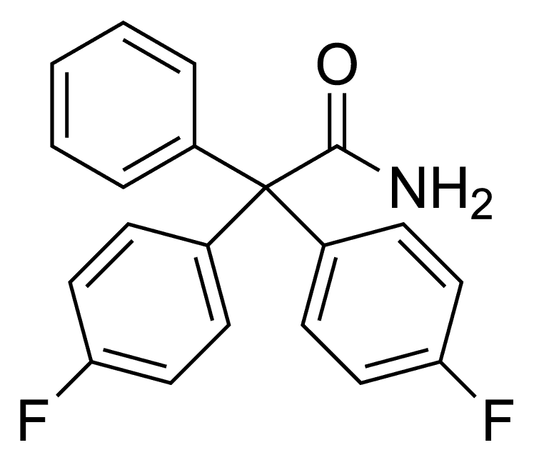 chemical structure of senicapoc - bis(4-fluorophenyl)phenylacetamide